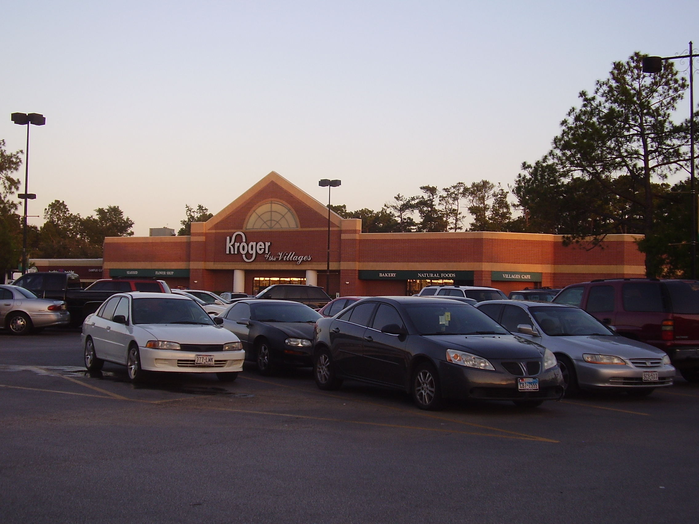 Kroger of the Villages - Hedwig Village, TX - 9325 Katy Frwy Houston, TX 77024